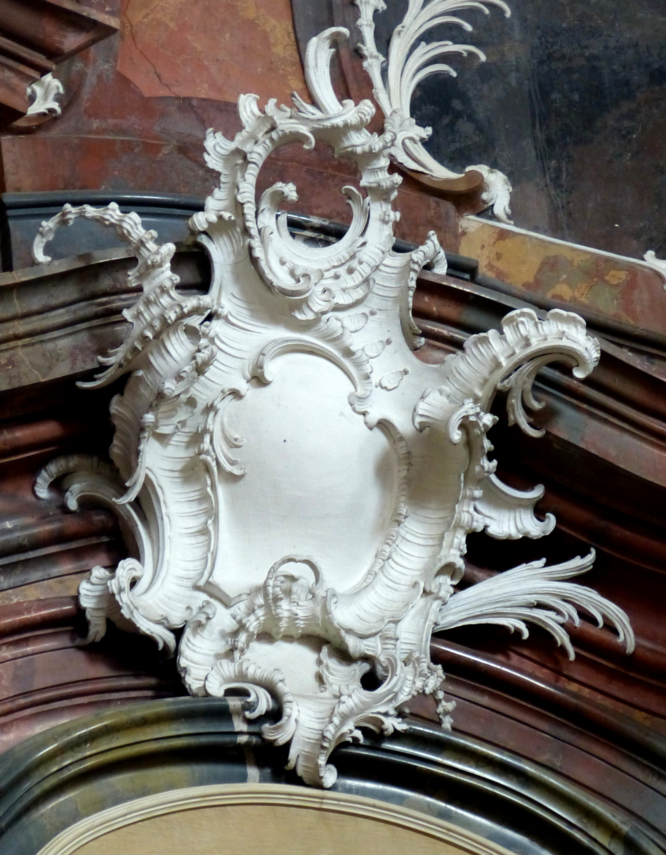 Engelhartszell ( Upper Austria ). Engelszell monastery church ( 1754-64 ) - Altar of Mary: Rocaille by Johann Georg Üblhör.